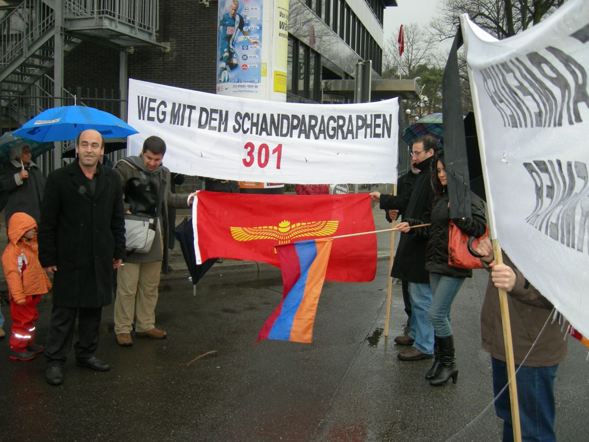 Protest for free speech and against Article 301 (Turkish penal code) in front of the Turkish Embassy in Germany. The banner reads "Do away with the Article of Shame" in German.